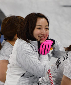 Japan Ladies Curling Team at PyeongChang 2018 Winter Olympic Games